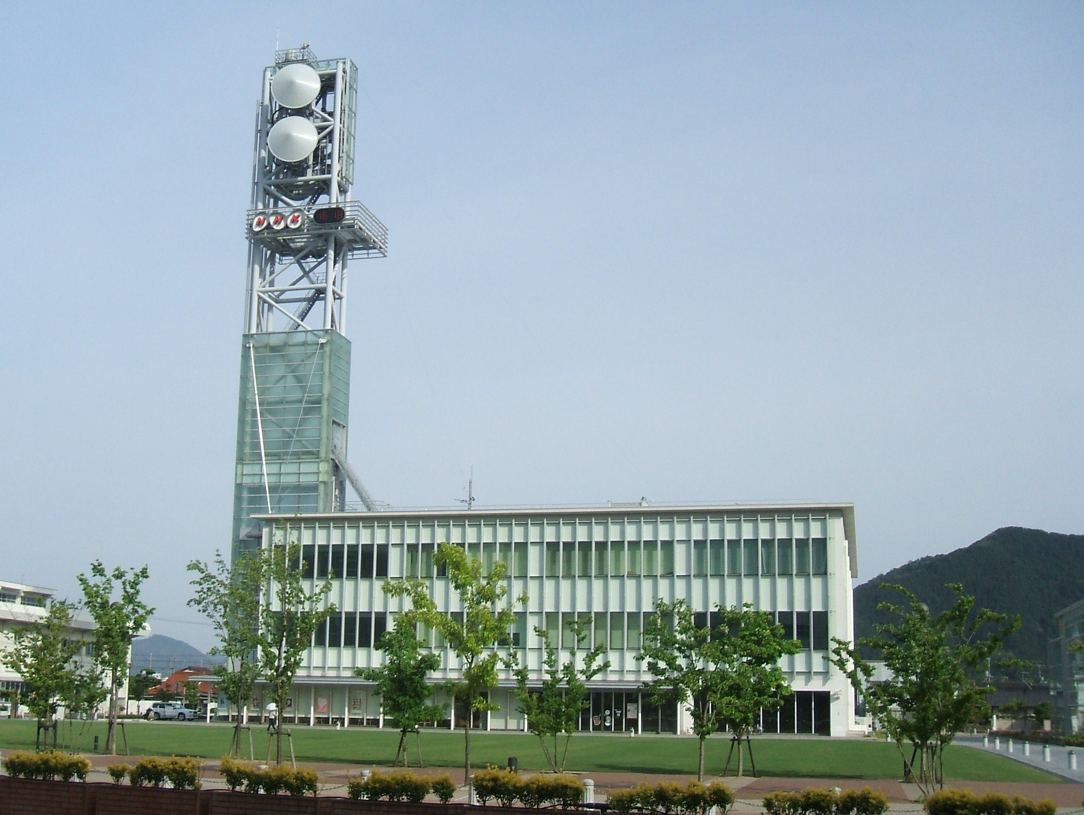 NHK(Japan Broadcasting Corporation) Yamaguchi Office